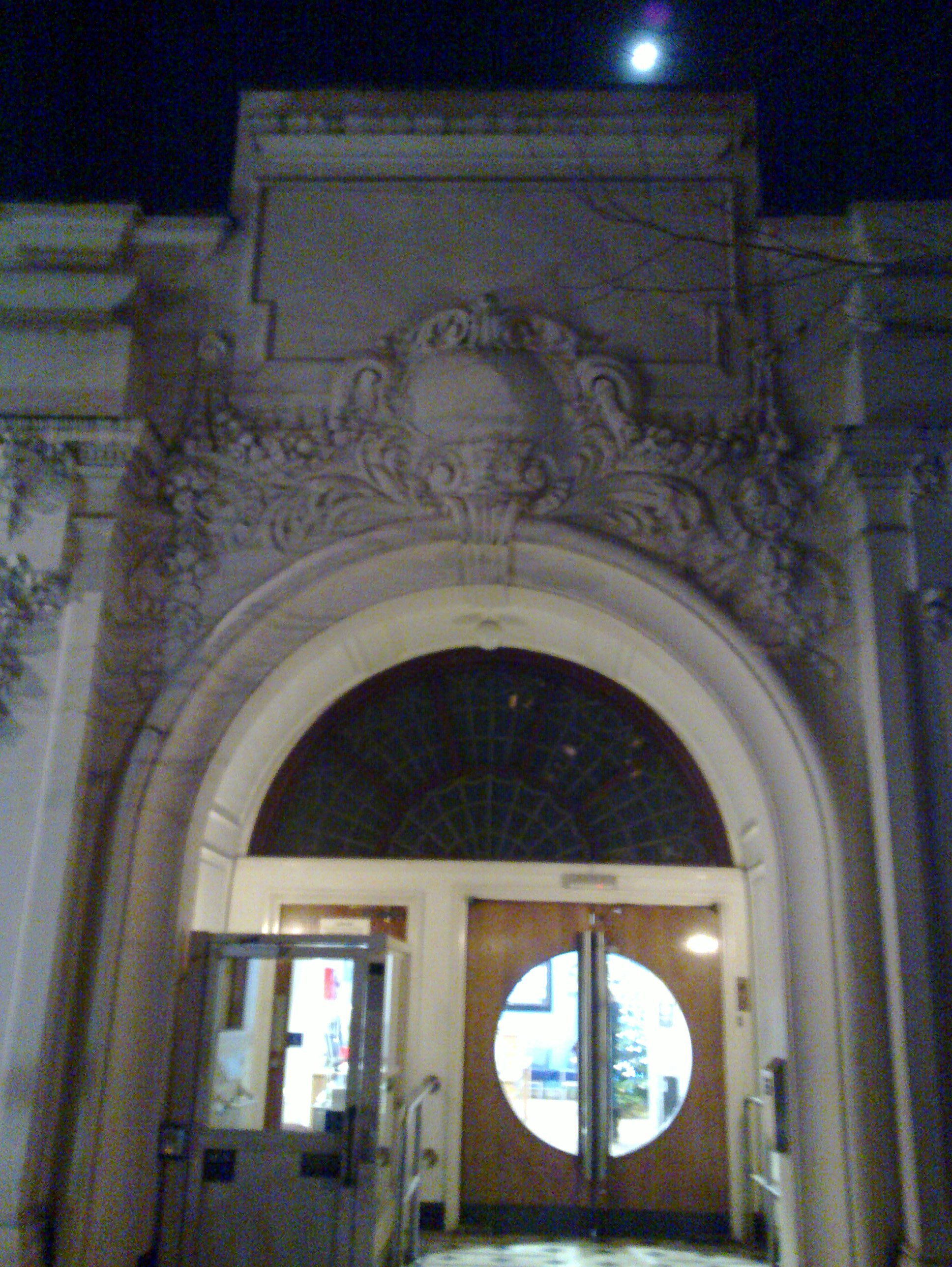 This was the home of the Radiophonic Workshop. doctor Who sounds (and the theme music) originated here.